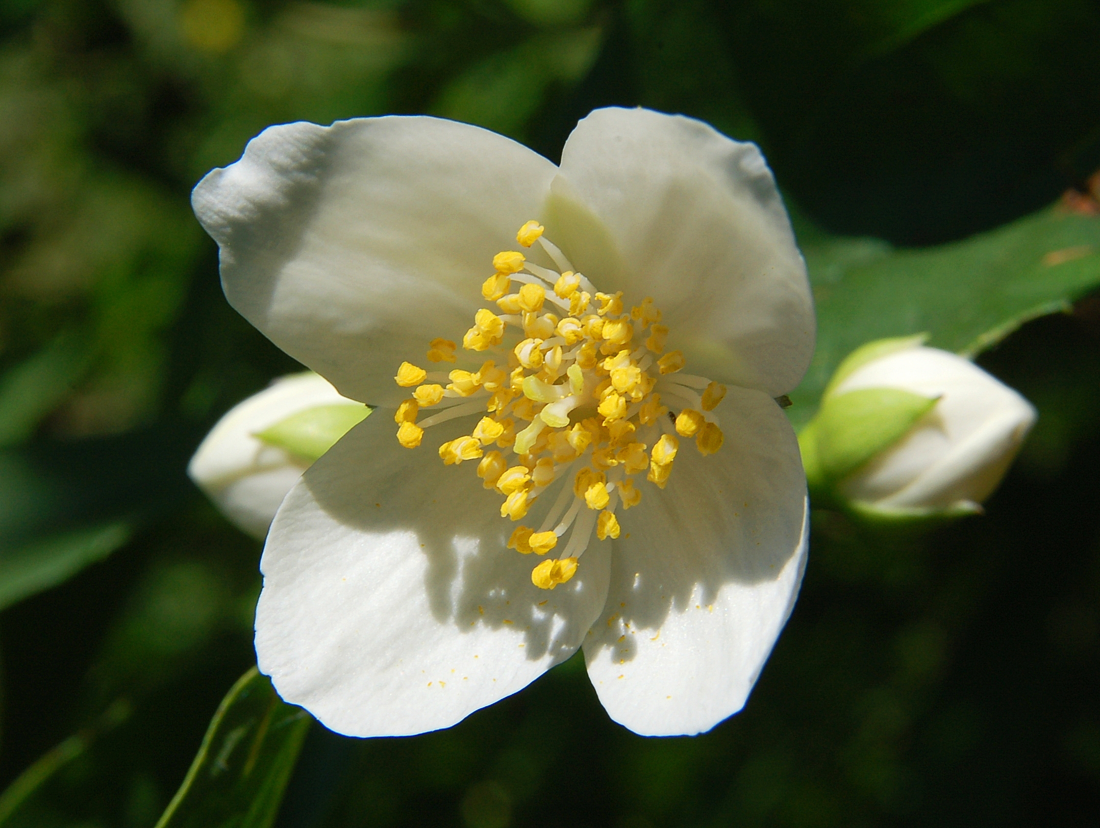 Carpenteria californica flower in Belgium (Hamois).